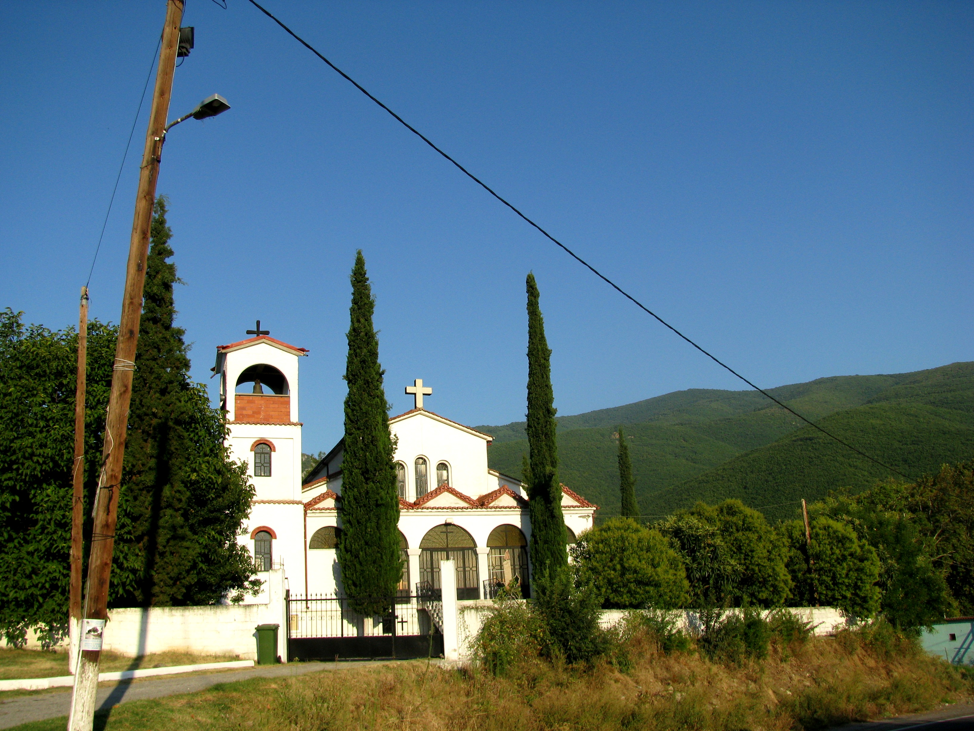 Church of Prodrom or Prodromos, Pella prefecture, Greece